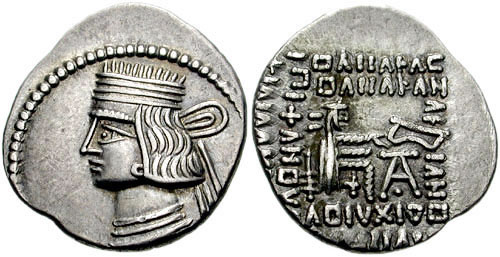 Coin of the Parthian king Pacorus II